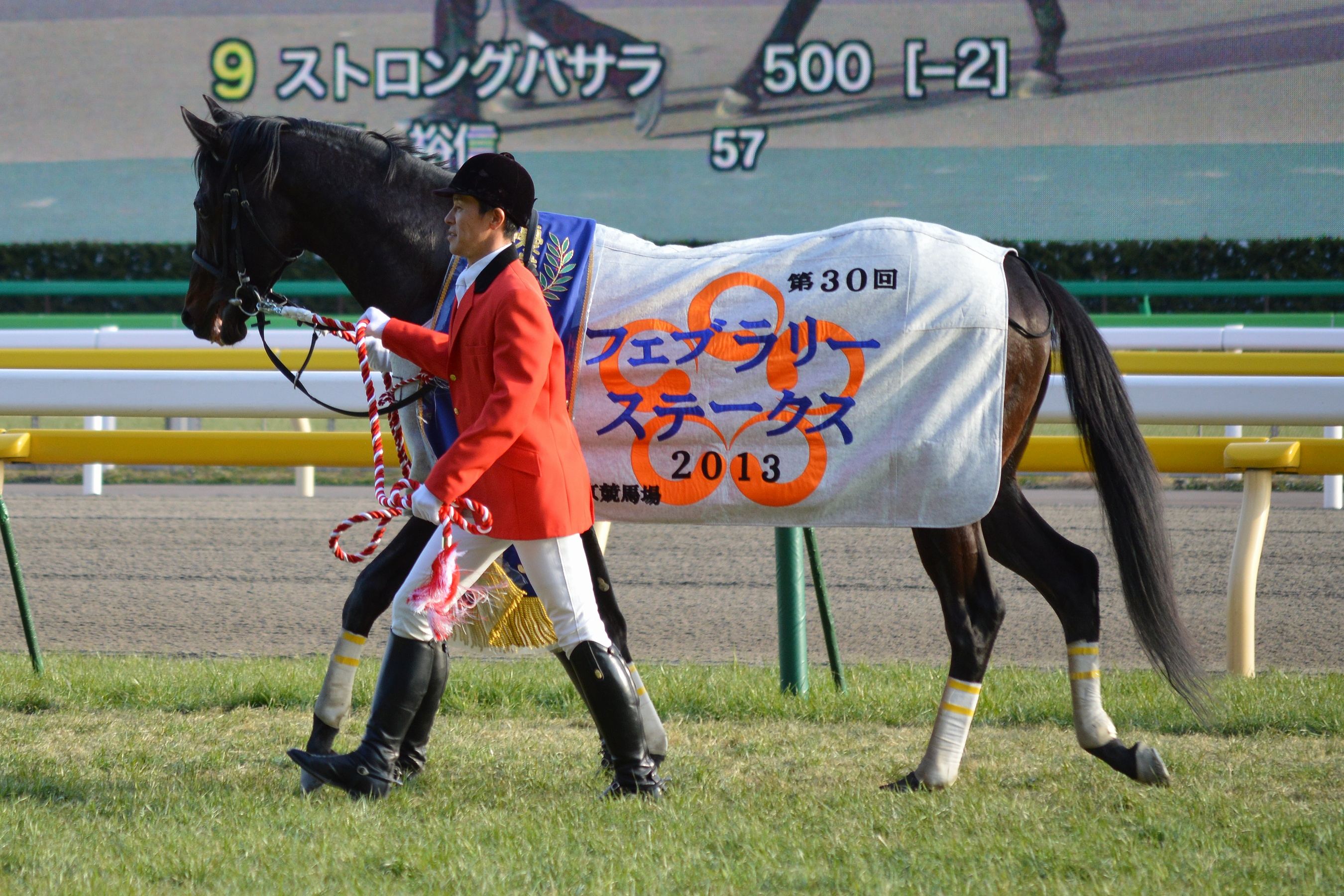 Japanese race horse Grape Brandy at Tokyo racecourse. Tokyo (JPN) 17 Feb 2013February Stakes (Grade 1) (4yo+) (Dirt) 1m Standard RankHorse NameOddsAgeWgtTrainerJockey1stGrape Brandy (JPN)57/10H59-0Takayuki YasudaSuguru Hamanaka2ndEspoir City (JPN)25/1H89-0Akio AdachiMasami Matsuoka3rdWonder Acute (JPN)41/5H79-0Masao SatoRyuji Wada4th - 16th/omission